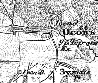 Osova on the map "Военно-топографическая карта Российской Империи" (known as "Schubert's map"), XX 5, 1866-1887 (issued in 1913).